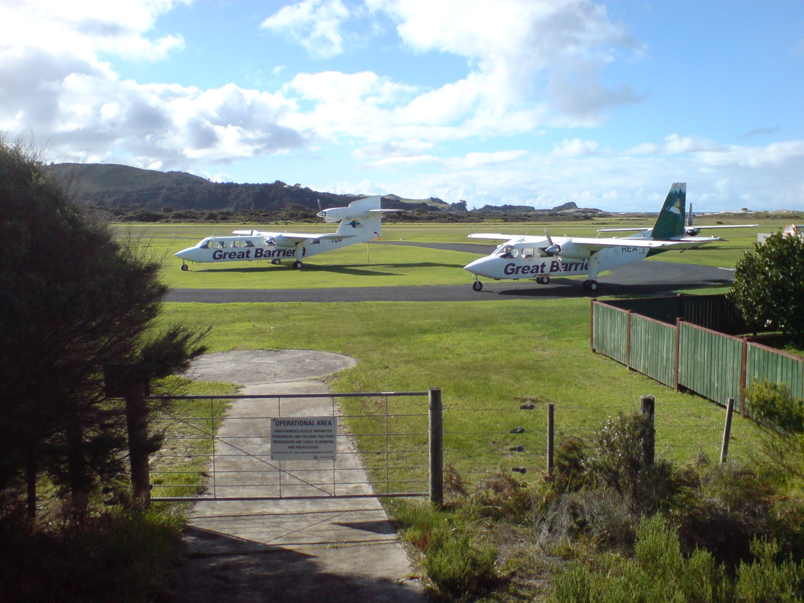 Aircraft at the Great Barrier Aerodrome, on Great Barrier Island, New Zealand. Taken looking roughly to the northeast.